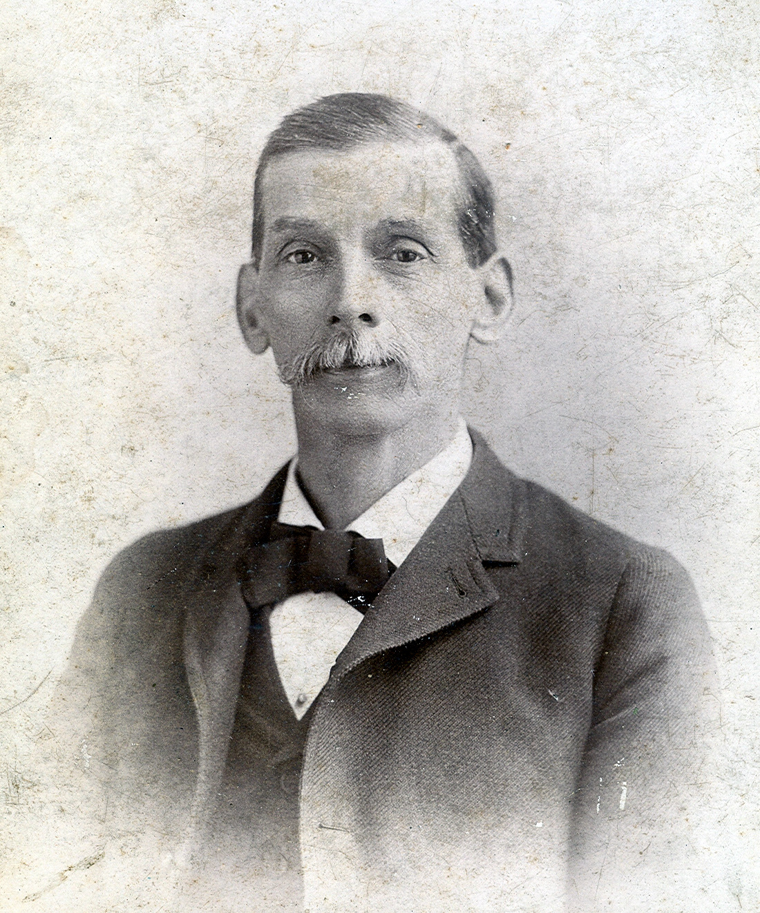 Alonzo Edward Deitz (born in New York 1836 – Died 1921) was an American lock manufacturer who founded the A.E. Deitz lock company on Clymer street in Brooklyn New York, 1861.